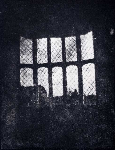 Window in the South Gallery of Lacock Abbey made from the oldest photographic negative in existence.